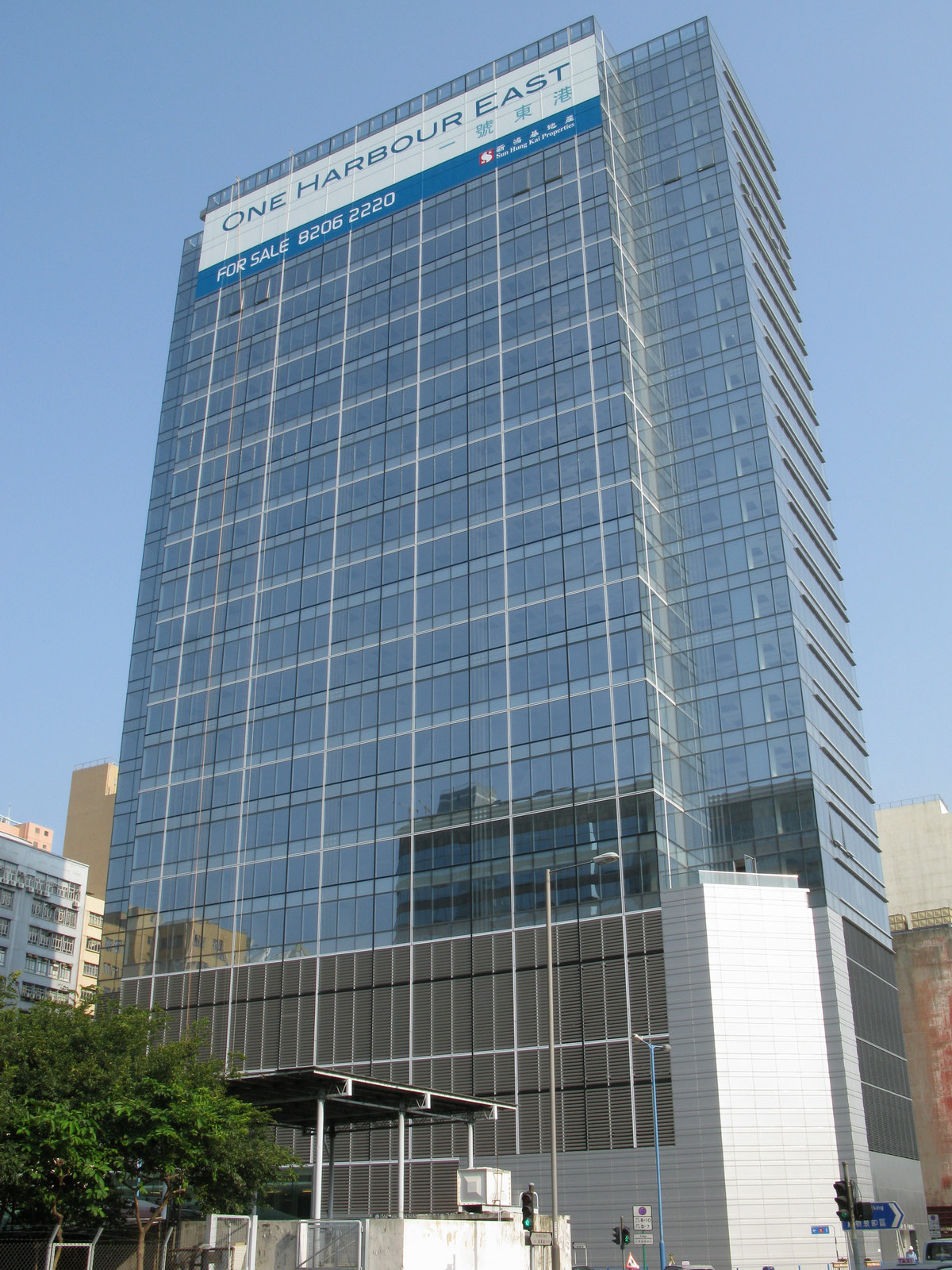 C-BONS International Centre (fka: One Harbour East), Millennium City 7